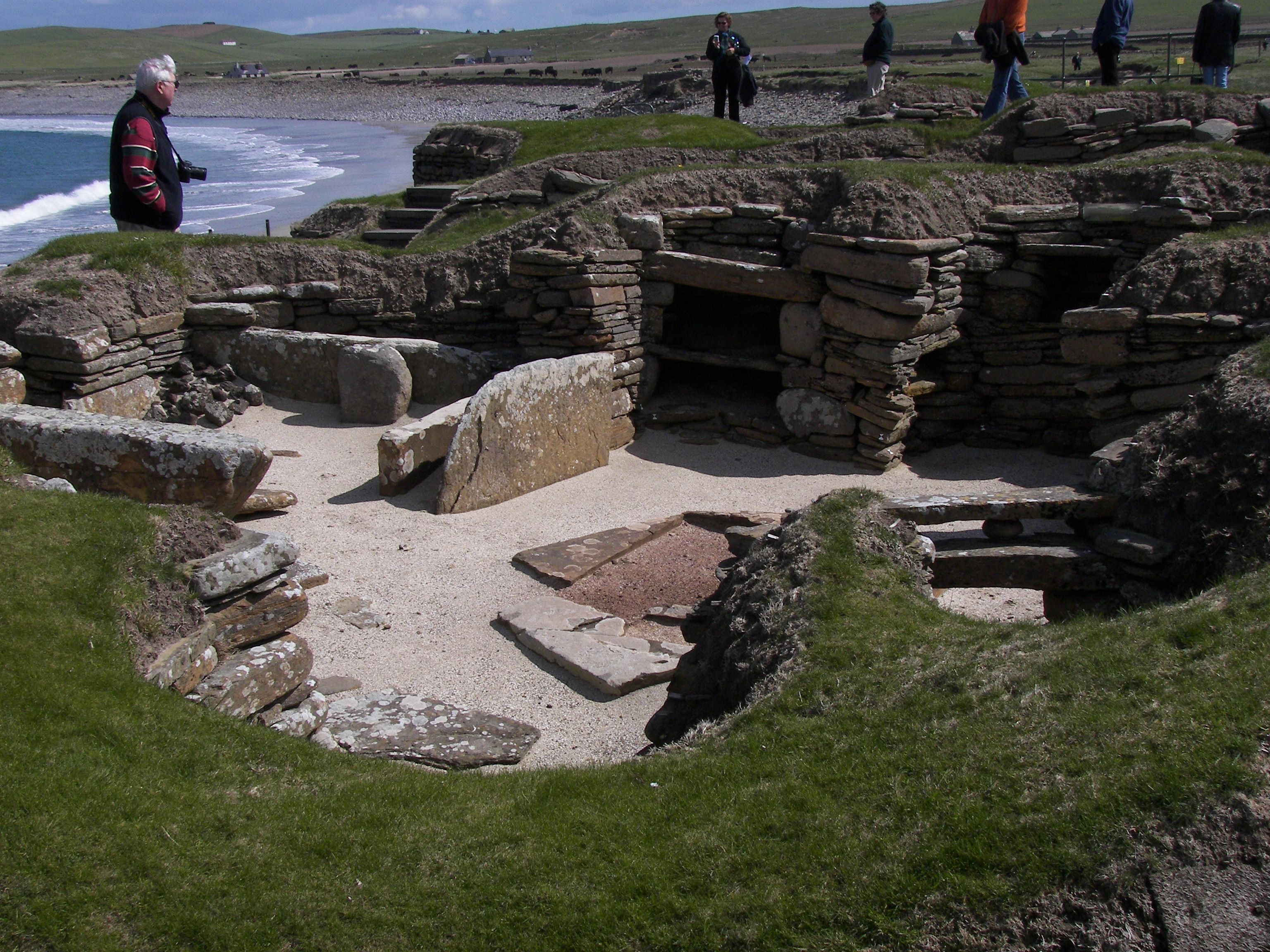 House 8 of Skara Brae.